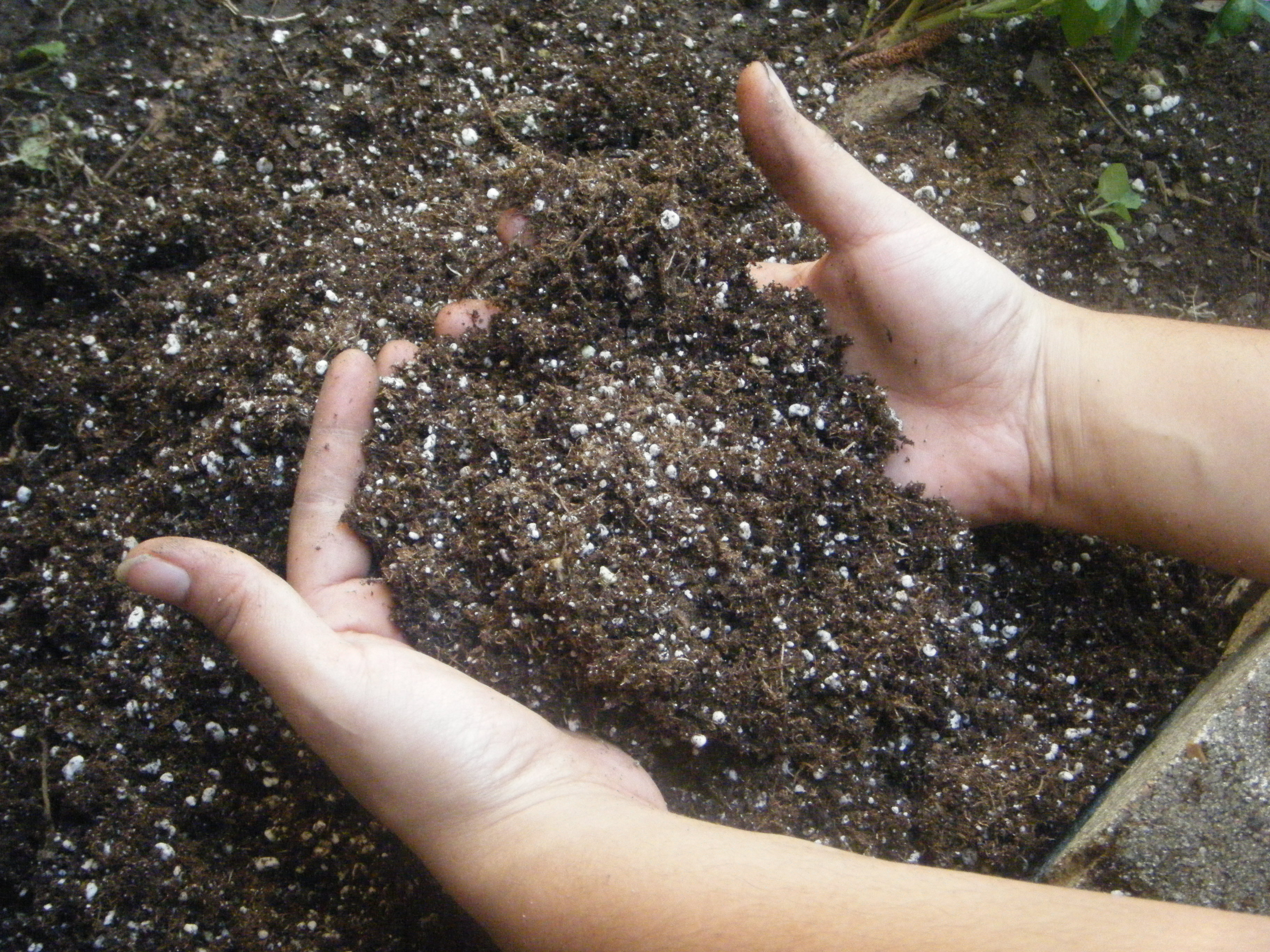 This is a picture of hands sifting through potting soil in a garden bed.